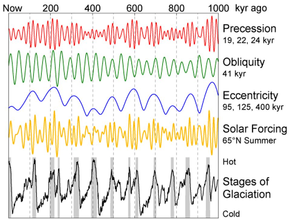 Enlarged by 100% & sharpened file with IrfanView.